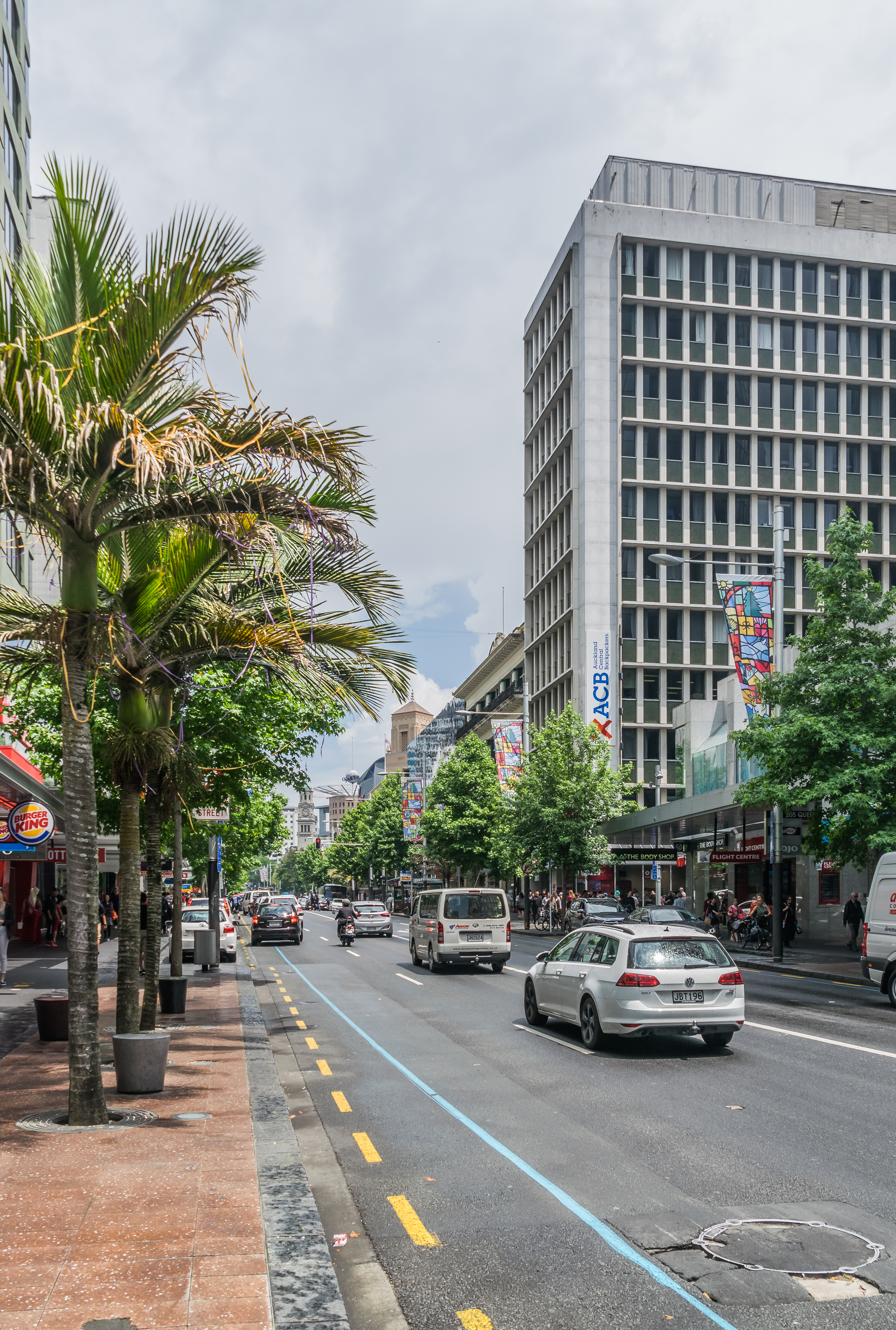 Queen Street in Auckland, New Zealand